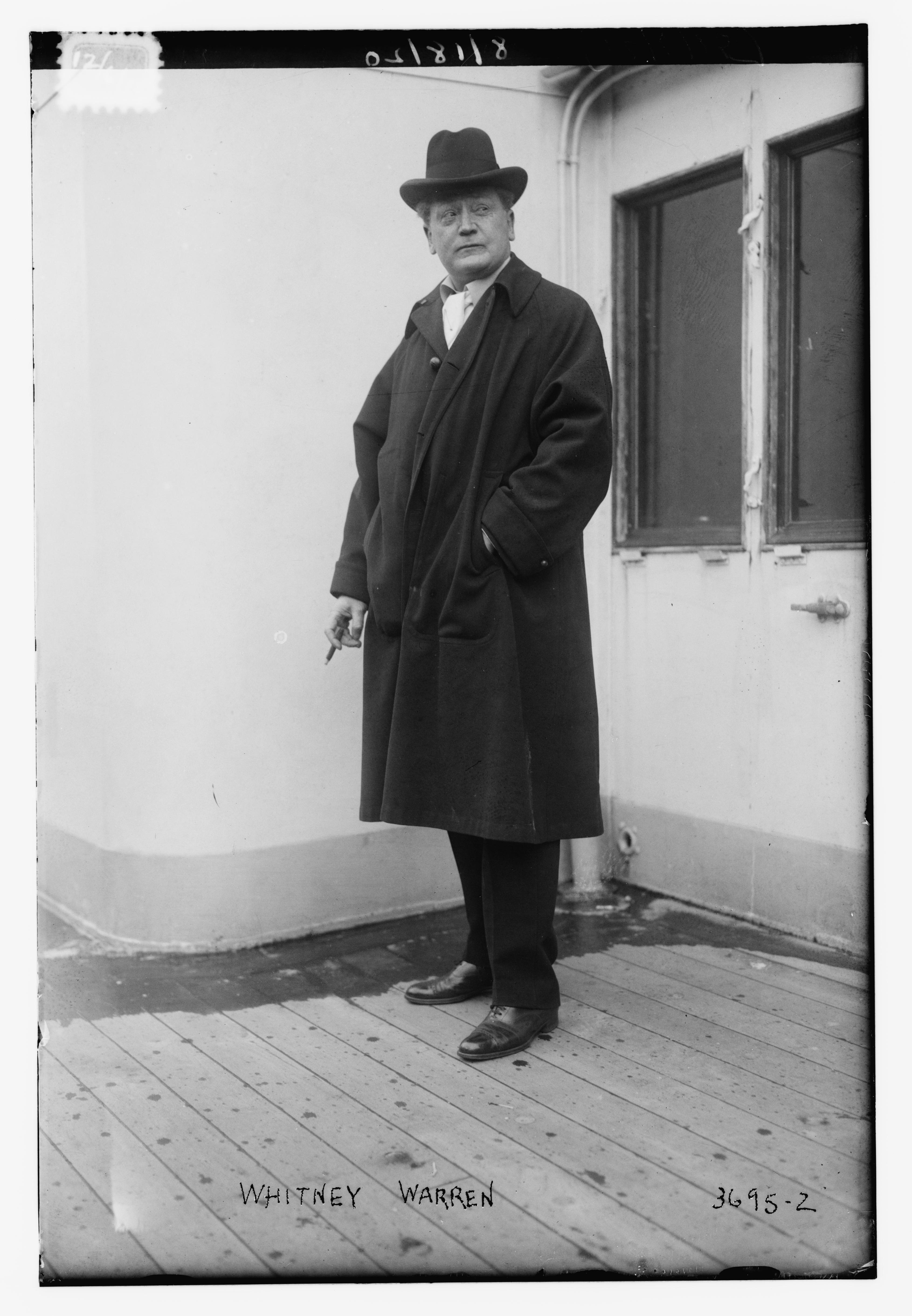 American architect, Whitney Warren (1864-1943)